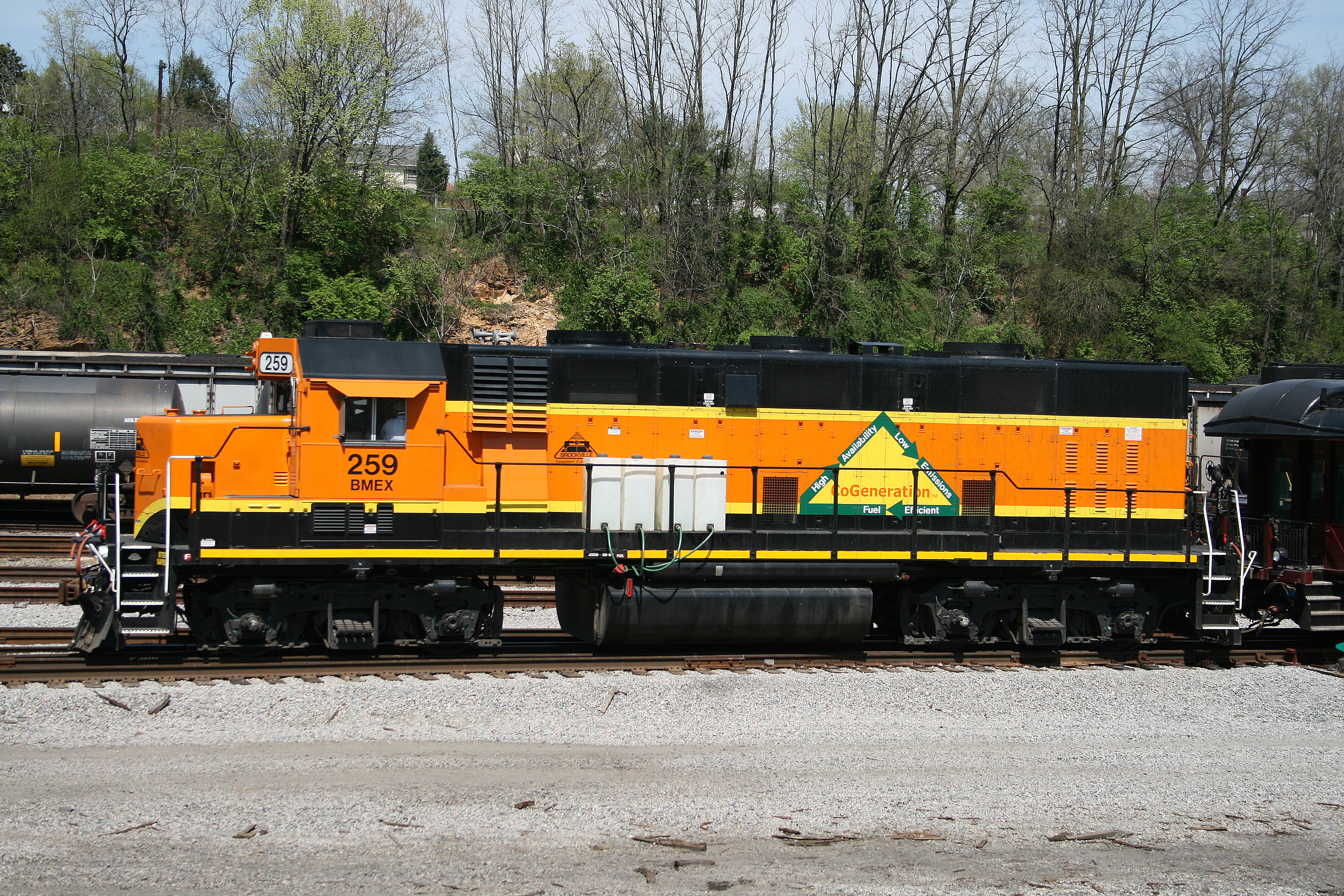 Brookville Equipment BMEX #259 is at one end of a test train on Norfolk Southern tracks in Roanoke, VA. This is the prototype for Brookville Equipment's CoGeneration line of multi-powered road switchers.